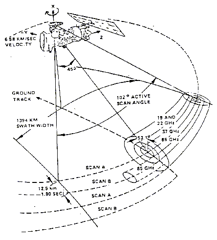 SSM/I scan pattern